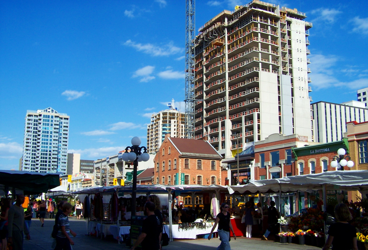 This is the Byward Market in Ottawa, Canada, taken from George Street. The purpose of the photo is to show the recent condo construction boom in this area of the city.